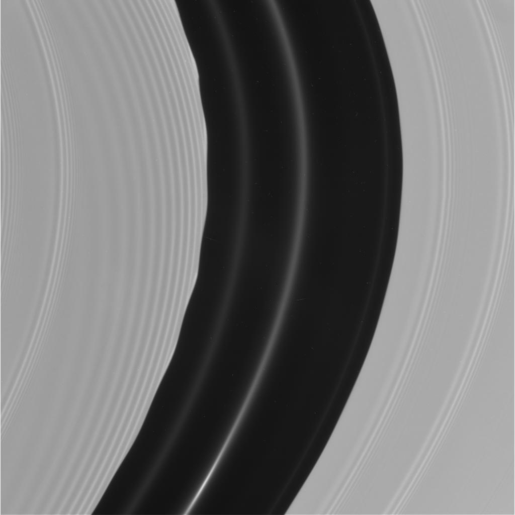 This is a narrow-angle camera image of Saturn's rings taken after the successful completion of the orbit insertion burn when the spacecraft had crossed the ring plane and was looking upwards at the lit face of the rings. The image shows details in the Encke gap (325 kilometers, 202 miles wide) in Saturn's A ring. The center of the gap lies at a distance of 133,600 kilometers (83,000 miles) from Saturn. The image shows a ring in the center of the gap. The wavy inner edge of the gap and the wake-like structures emanating from its inner edge are caused by the tiny moon Pan that orbits in the middle of the gap. Two fainter ring features are also visible in the gap region. Cassini was approximately 195,000 kilometers (121,000 miles) above the ringplane when the image was obtained. Image scale is approximately 1 kilometer per pixel. The Cassini-Huygens mission is a cooperative project of NASA, the European Space Agency and the Italian Space Agency. The Jet Propulsion Laboratory, a division of the California Institute of Technology in Pasadena, manages the Cassini-Huygens mission for NASA's Office of Space Science, Washington, D.C. The imaging team consists of scientists from the US, England, France, and Germany. The imaging operations center and team lead (Dr. C. Porco) are based at the Space Science Institute in Boulder, Colo. The original NASA image has been edited slightly to remove artifacts.